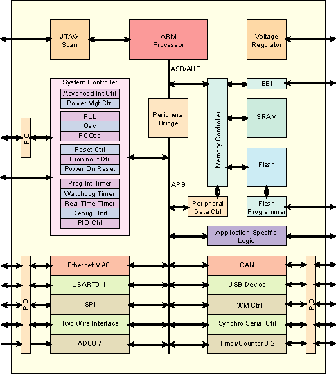 from (File:ARMSoCBlockDiagram.gif); original uploader User:PeterJohnBishop